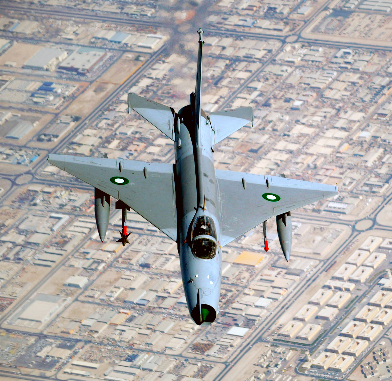 A Pakistani F-7 conducts a training mission during a multinational exercise, Dec. 9, 2009, in Southwest Asia. Aircrews from France, Jordan, Pakistan, the U.K., and the U.S. trained together in the Air Forces Central area of responsibility in fighting a large-scale air war.